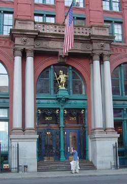 Puck Bldg NYC - Lafayette St Entrance